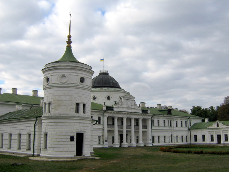 Kachanovka Palace of Count Peter Rumyantsev